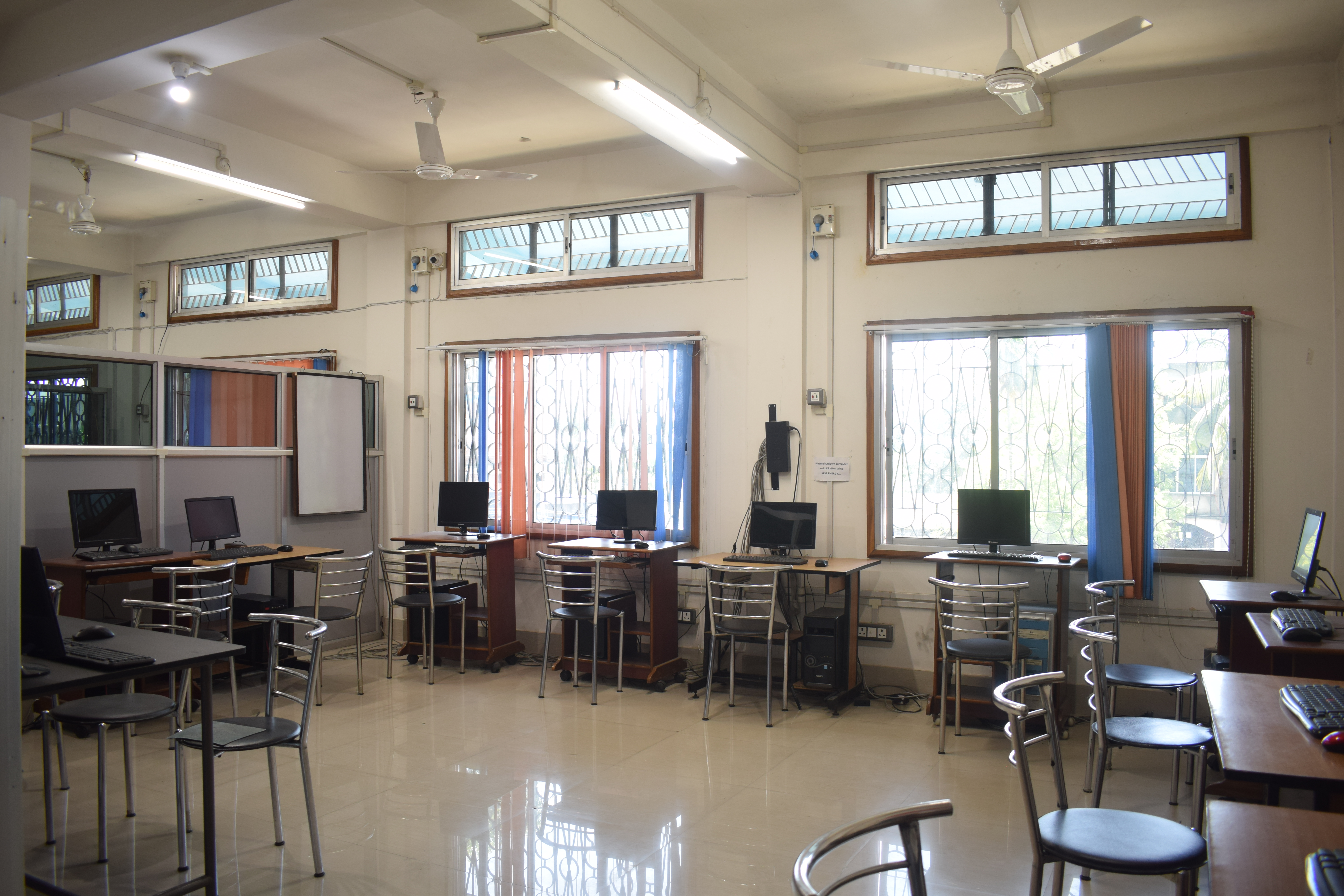 aptech doomdooma interior